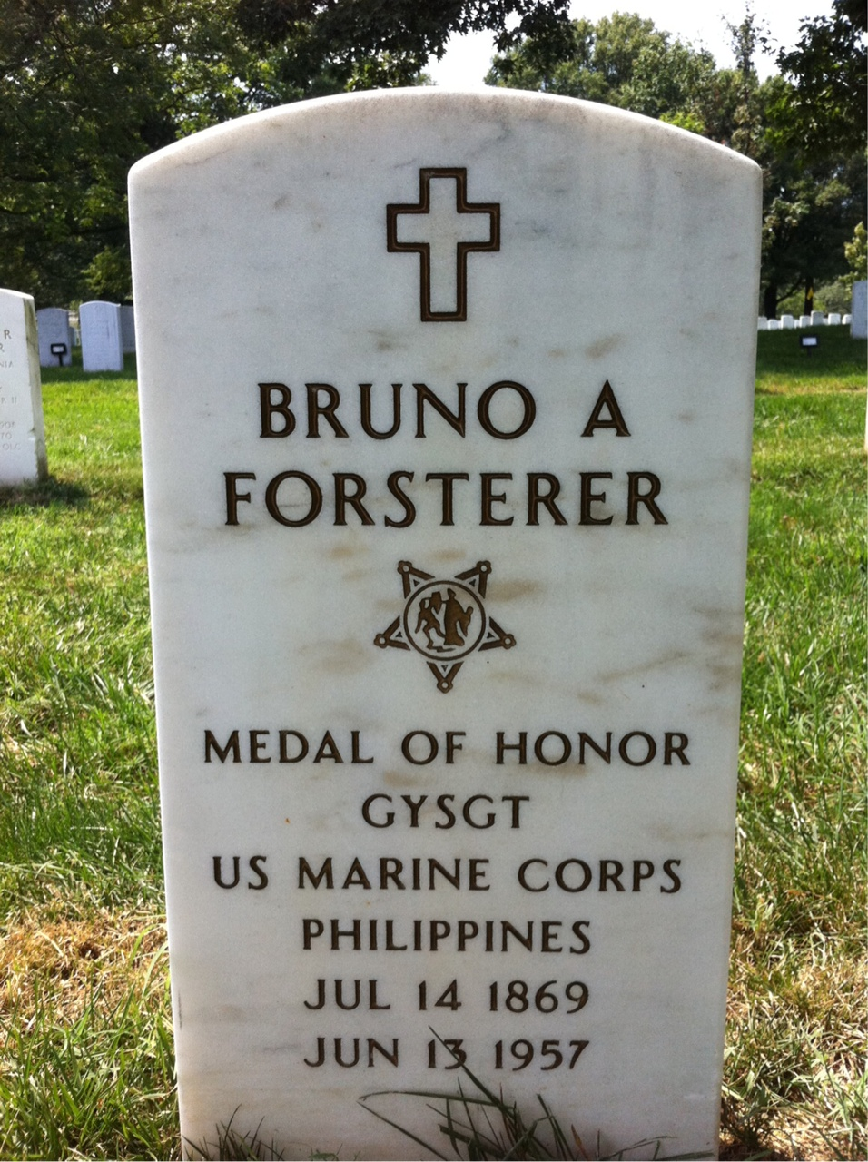 Grave of Bruno Albert Forsterer at Arlington National Cemetery